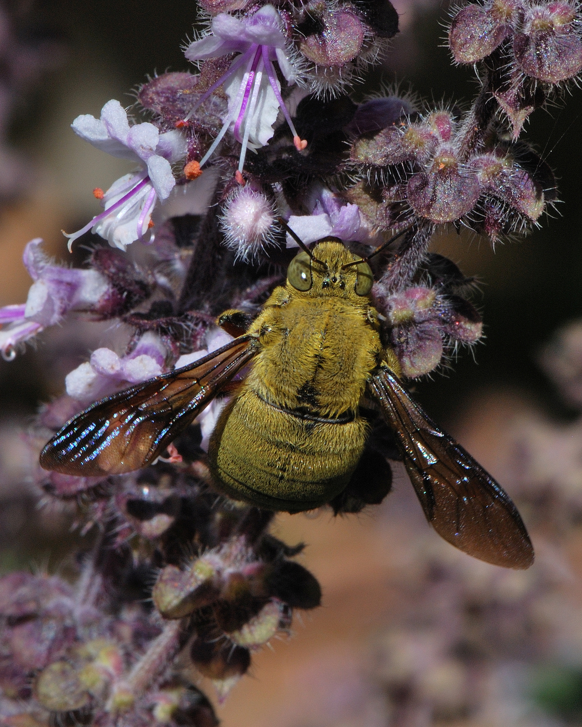 Male of Xylocopa pubescens foraging on basil, Tel Aviv, Israel, April 13, 2010.